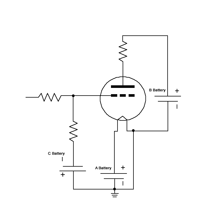 Battery circuit of a triode vacuum tube